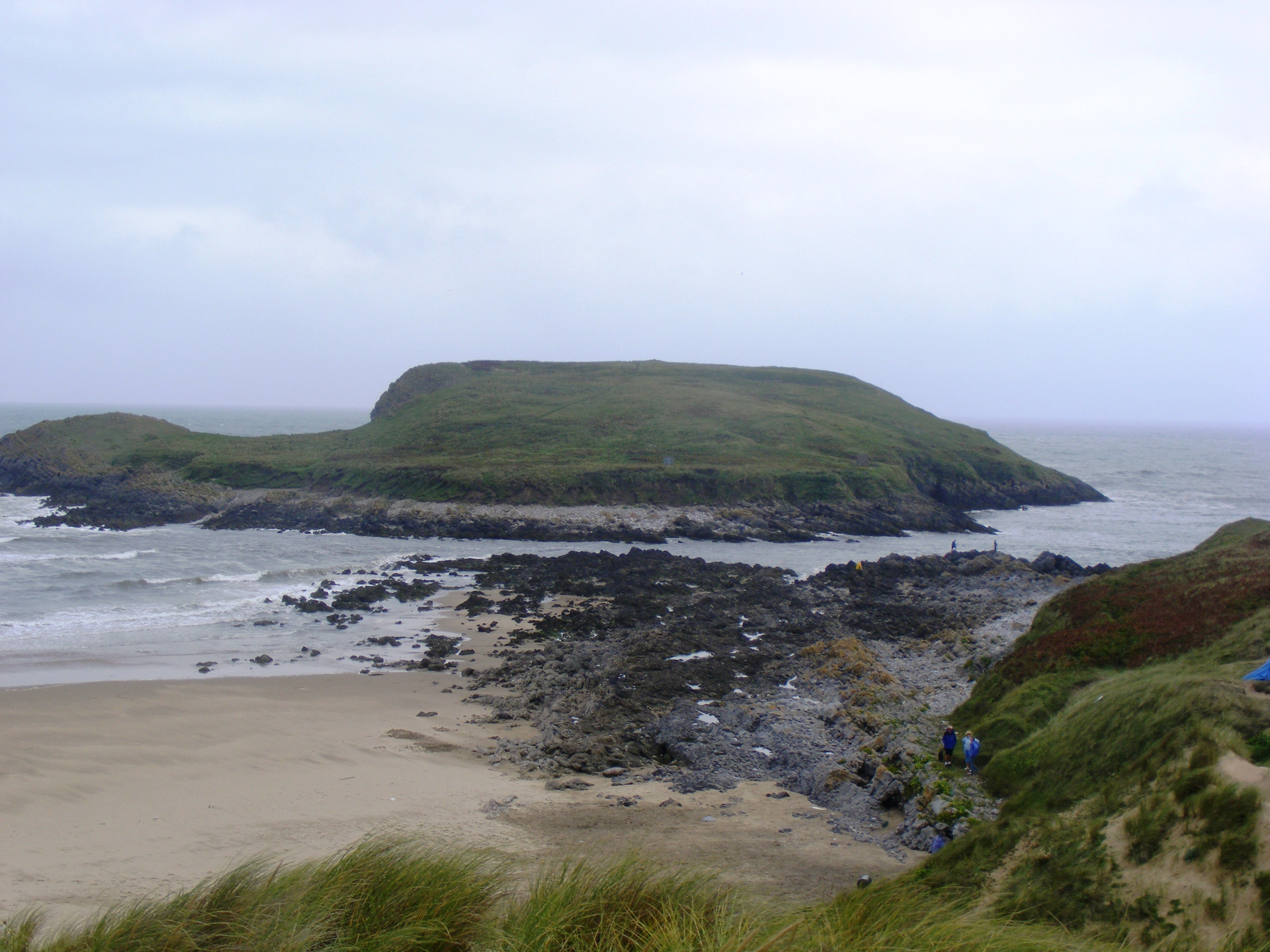 Bury Holms